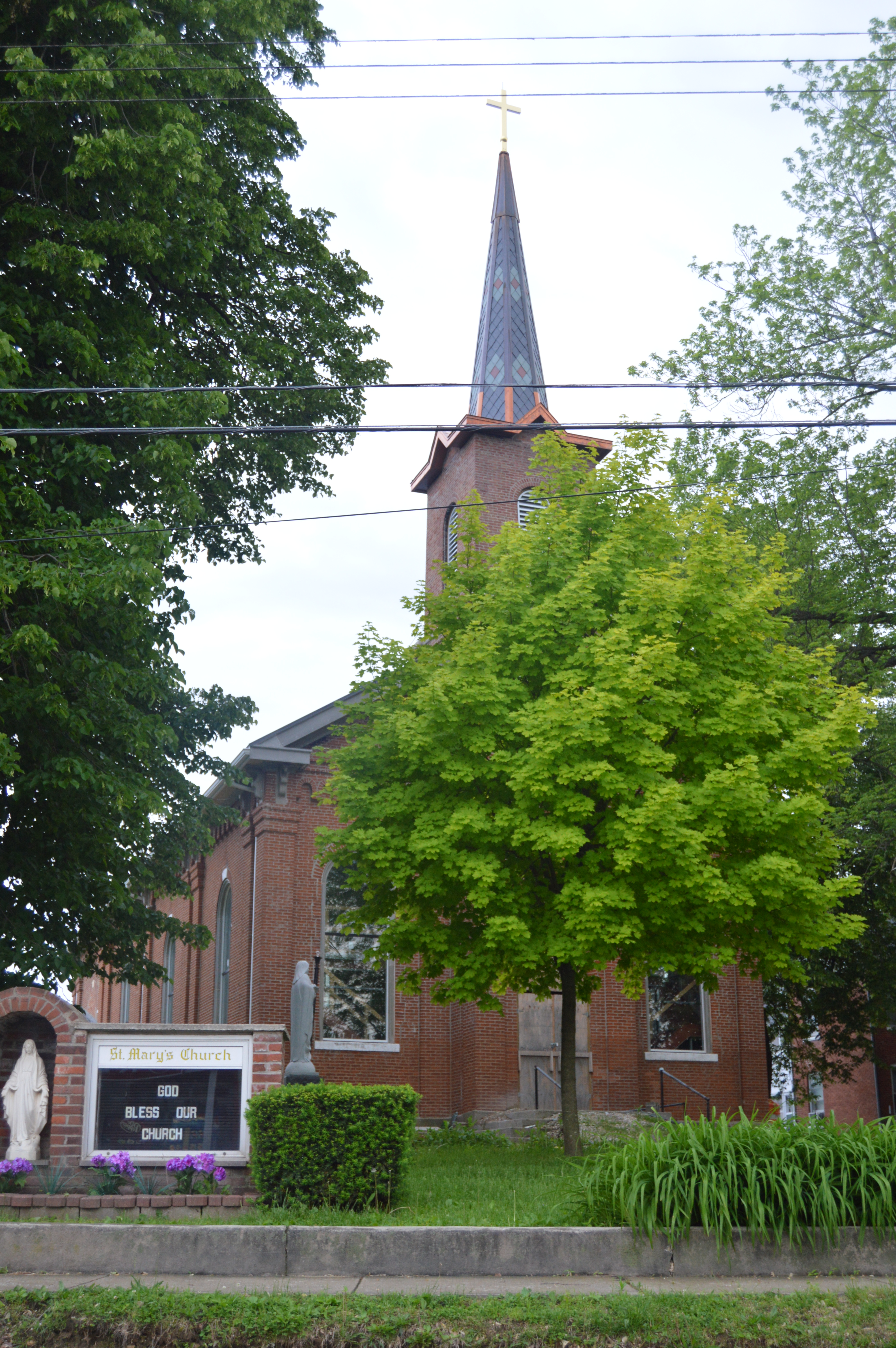 Front and eastern side of St. Mary's Catholic Church, located at 115 E. Main Street in Brussels, Illinois, United States. Built in 1902, it is part of the Brussels Historic District, a historic district that is listed on the National Register of Historic Places.